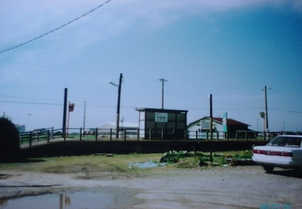 Meitetsu Mikawa line Nakabata Station (2004 March)